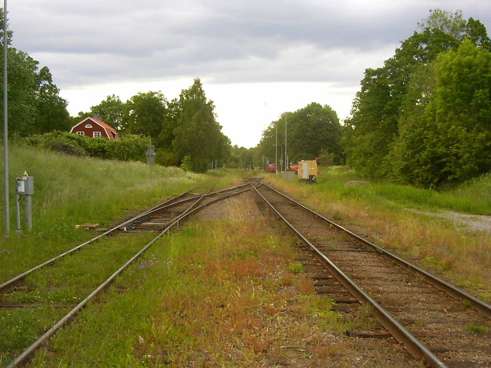 Tjustbanan and Stångådalsbanan at Bjärka-Säby, direction Linköping